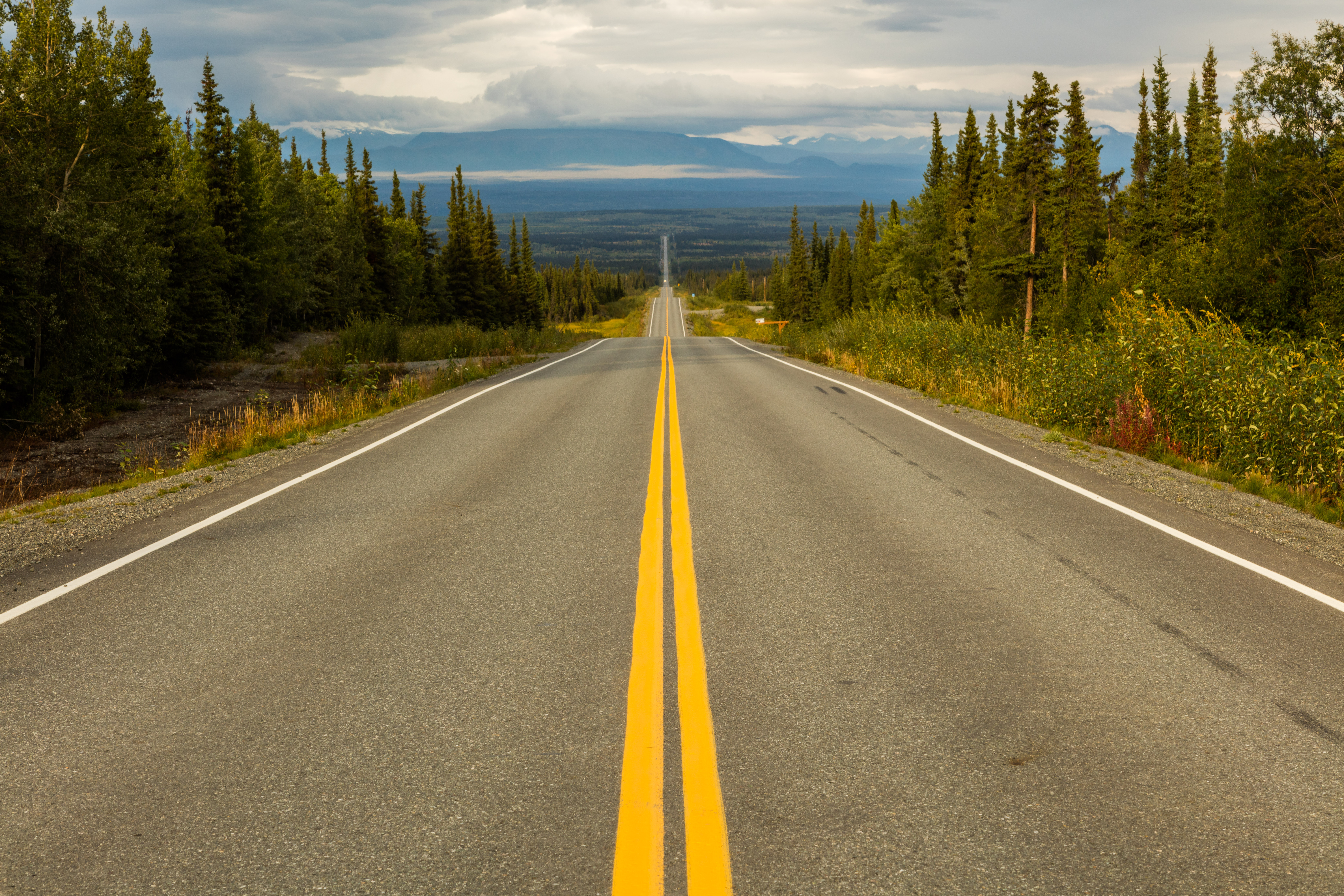 Edgerton Highway, Copper Center, Alaska, USA